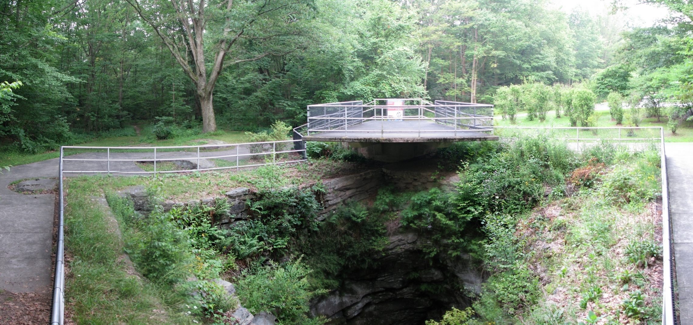 Panoramic view of the pothole at Archbald Pothole State Park is a PA state park in Archald, Lackawanna County, Pennsylvania in the United States. Panorama of 7 photos, This panoramic image was created with Autostitch (stitched images may differ from reality).